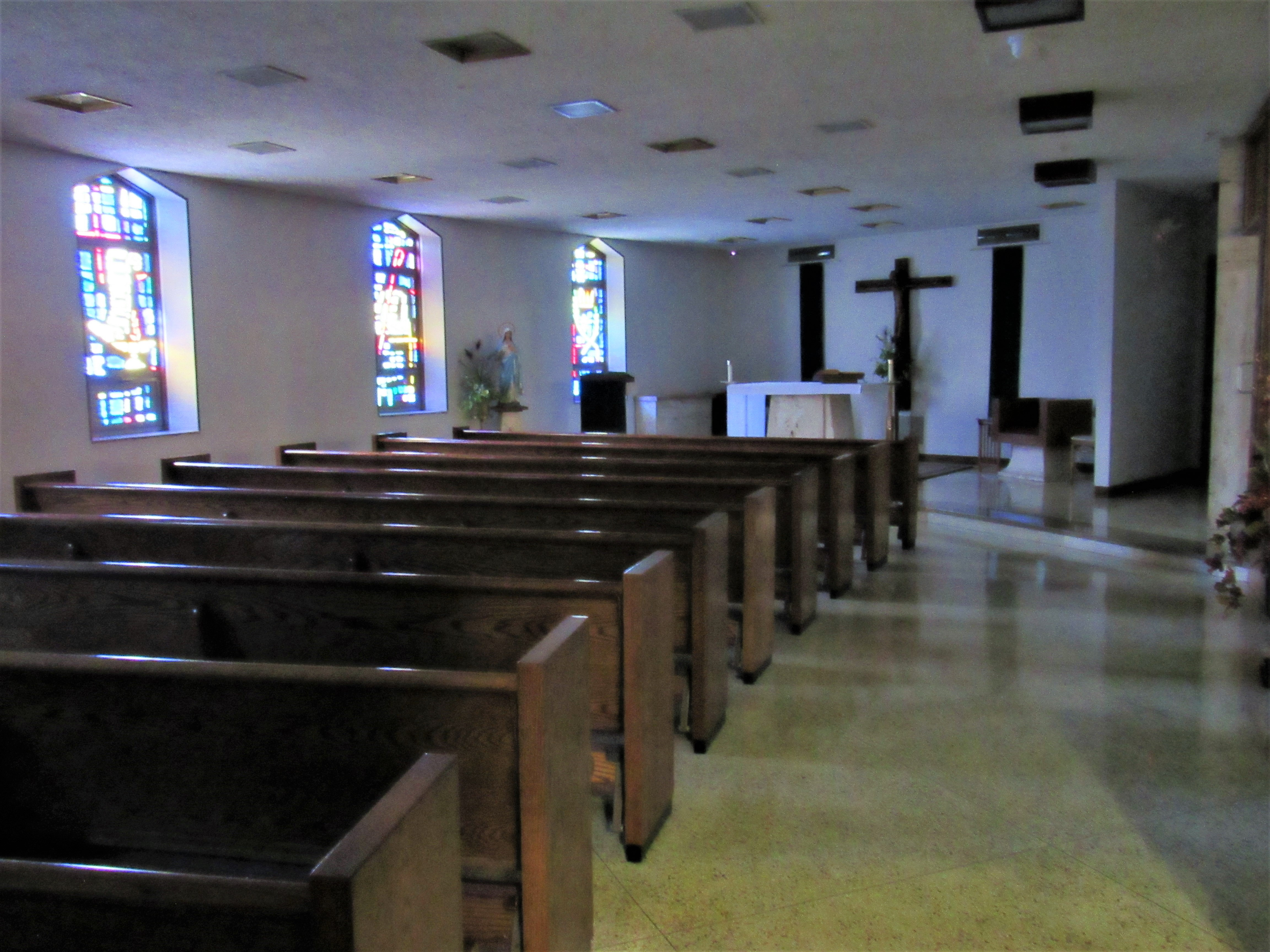 The Chapel in the Cathedral of Saint Joseph in Jefferson City, Missouri.